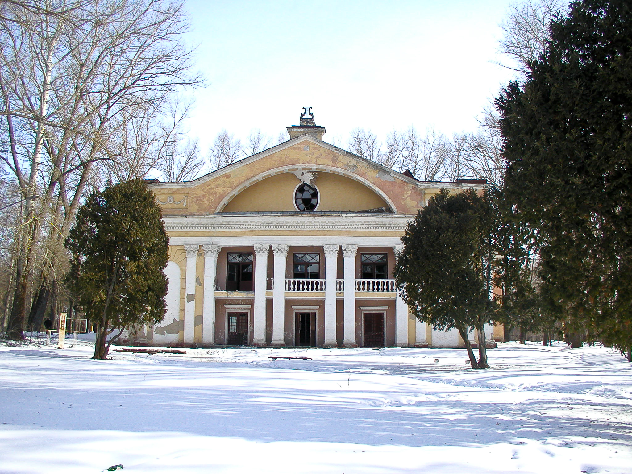 Old recreation center in Kokino, Bryansk region (dilapidated)